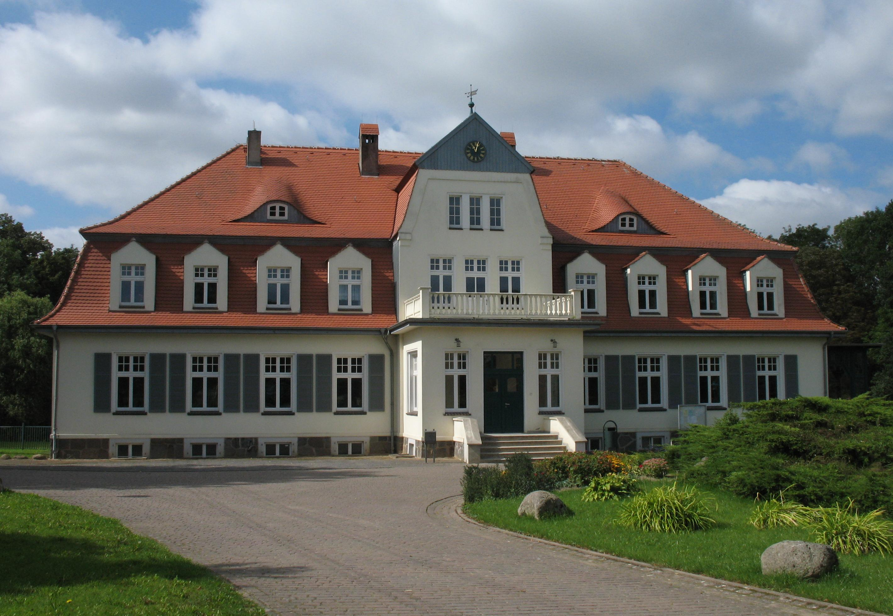 Manor in Wasdow in Mecklenburg-Western Pomerania, Germany